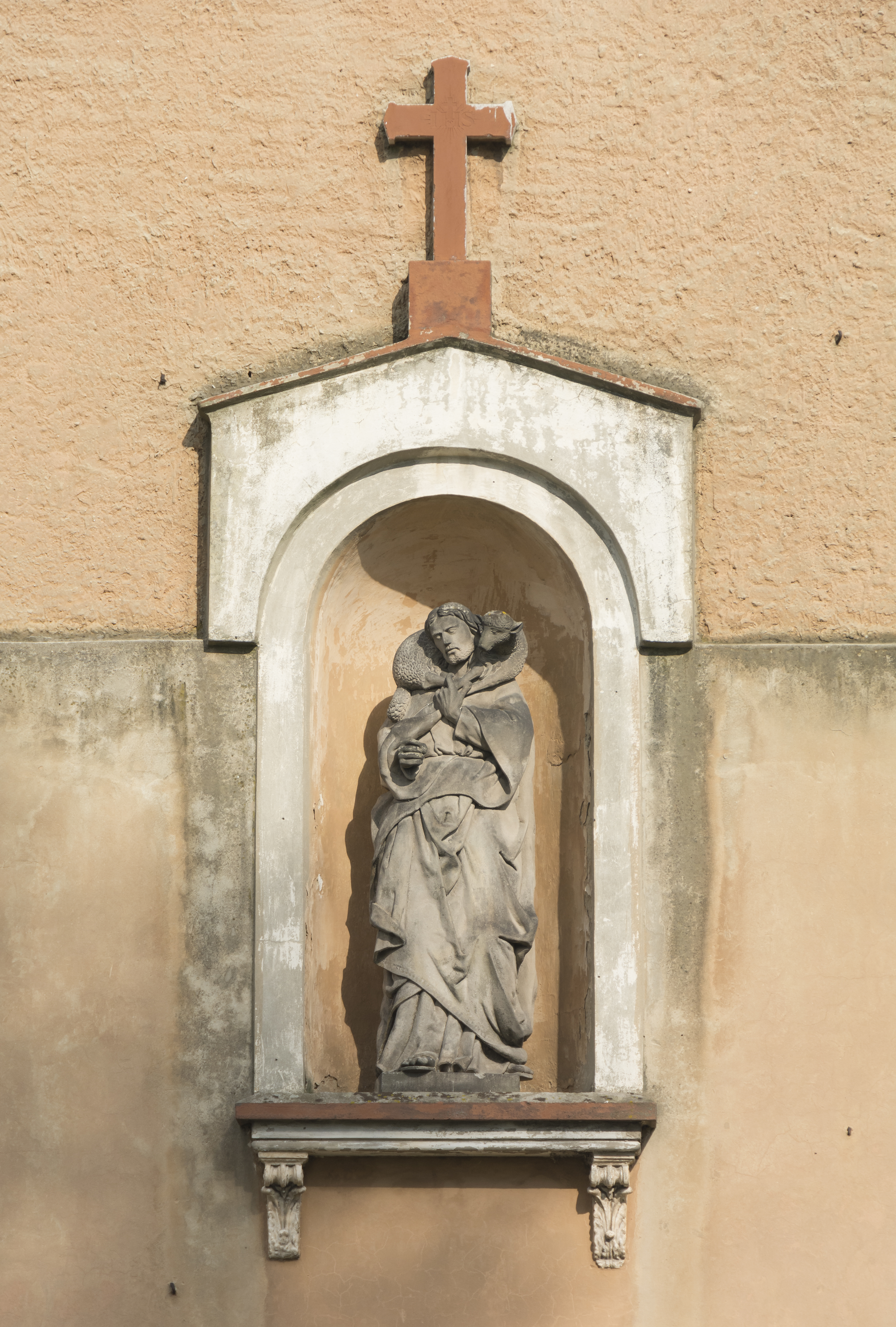 Church of St. Mary Magdalene in Tarnów, sculpture of Jesus Christ as the Good Shepherd